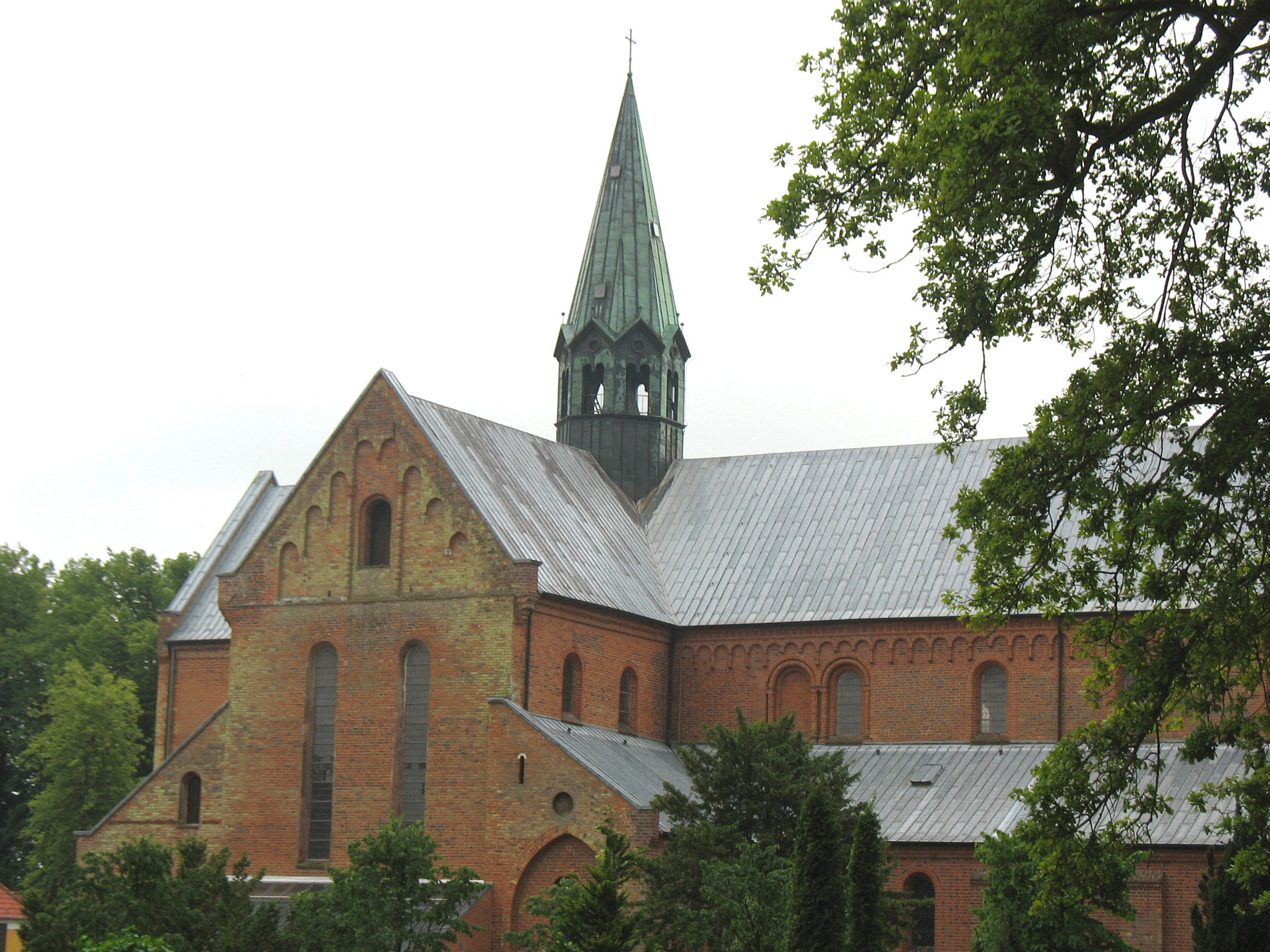 The monastery church "Sorø Klosterkirke" in the town "Sorø", located in West Zealand, east Denmark.